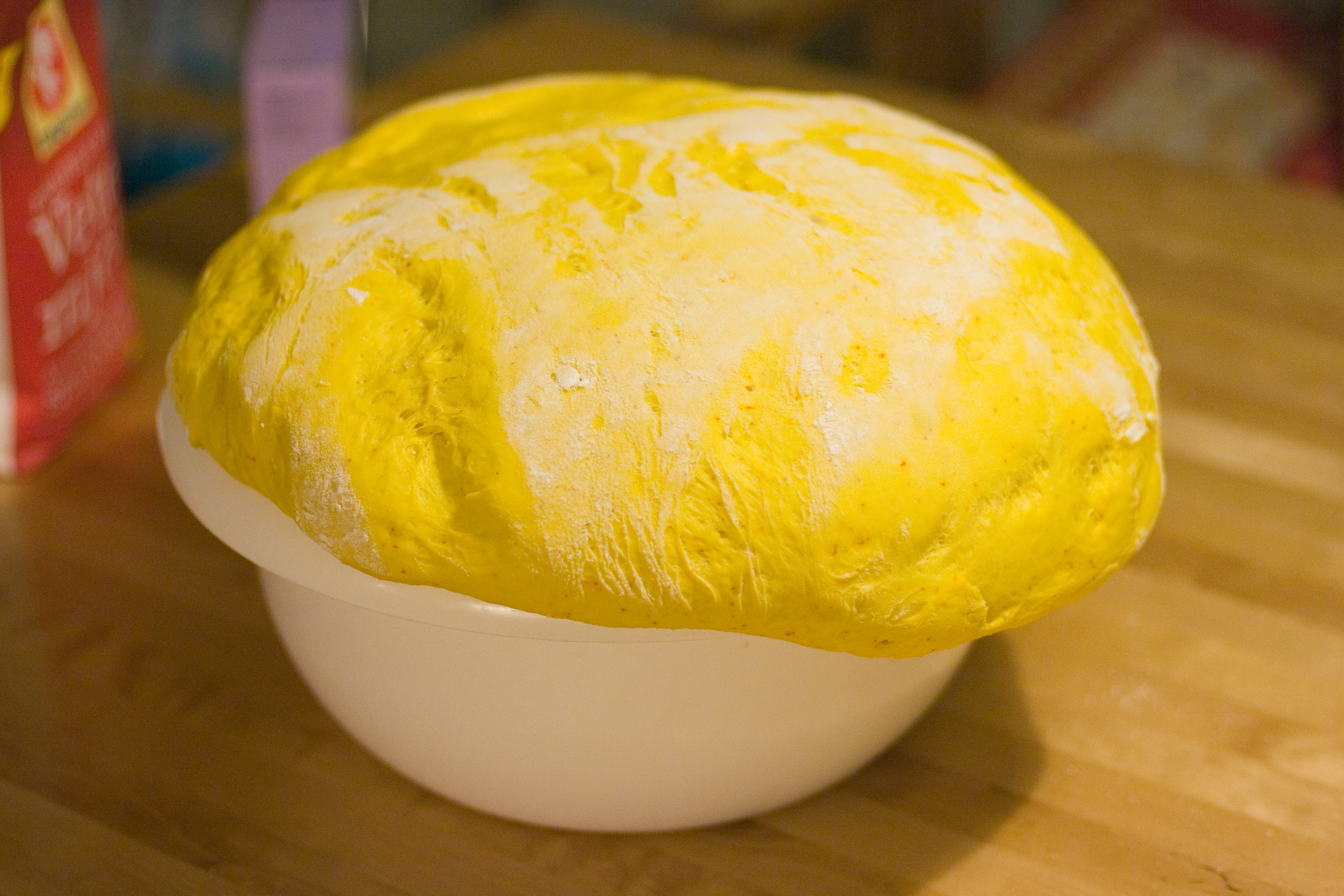 Baking Saffron buns